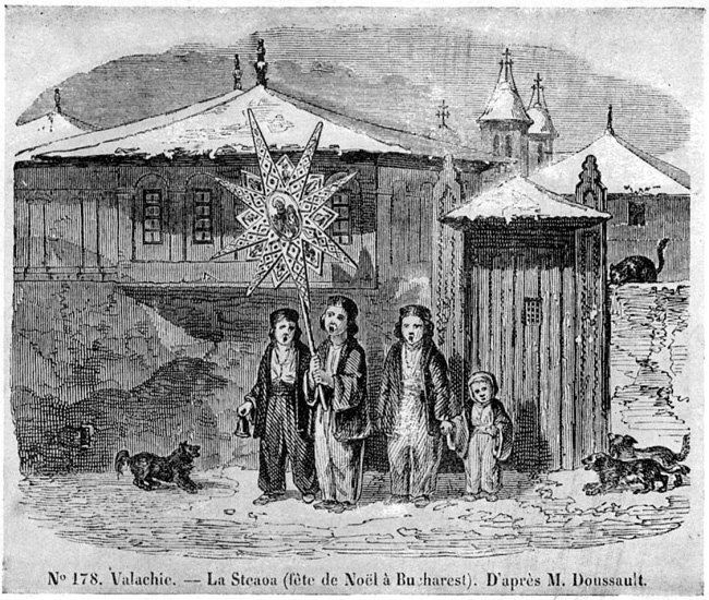 Child singers carrying a star with icon of a saint. Bucharest, 1842.